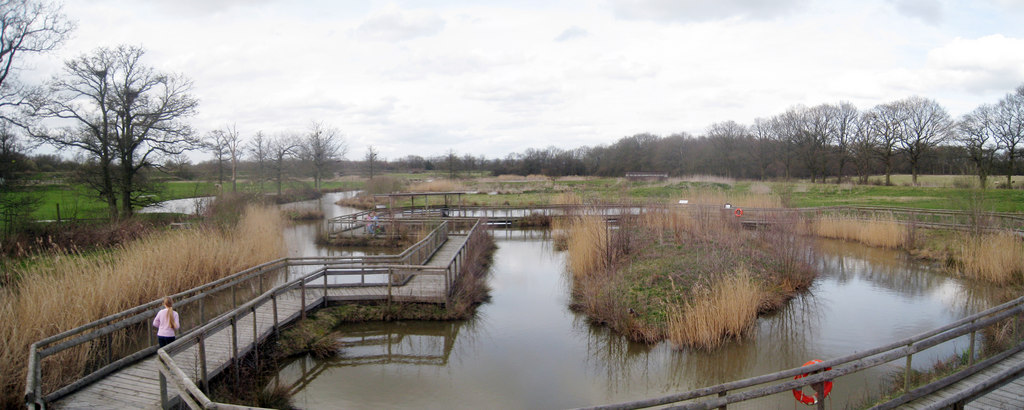 British Wildlife Centre, Lingfield, near to Newchapel, Surrey, Great Britain. Wetland area of the centre.